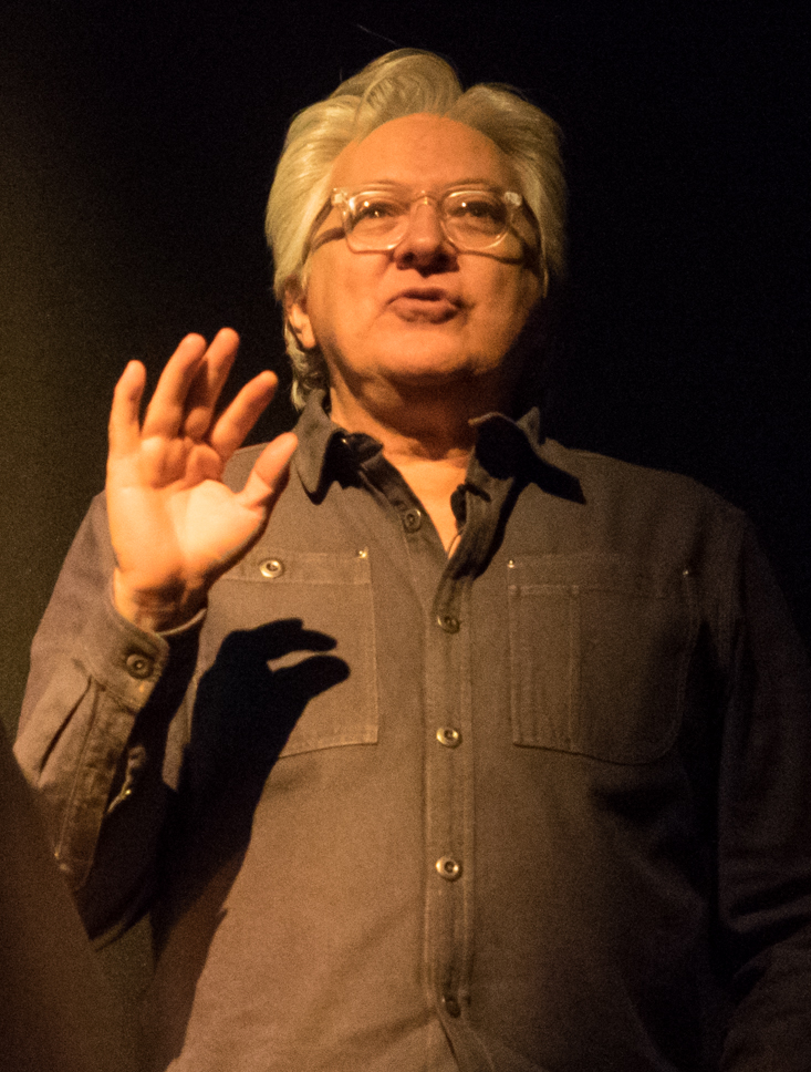 Photographer Abelardo Morell spoke at Atlanta's Richard H. Rich Theatre on Thursday, March 6, 2014 and later attended a showing of his work at the adjacent High Museum of Art.